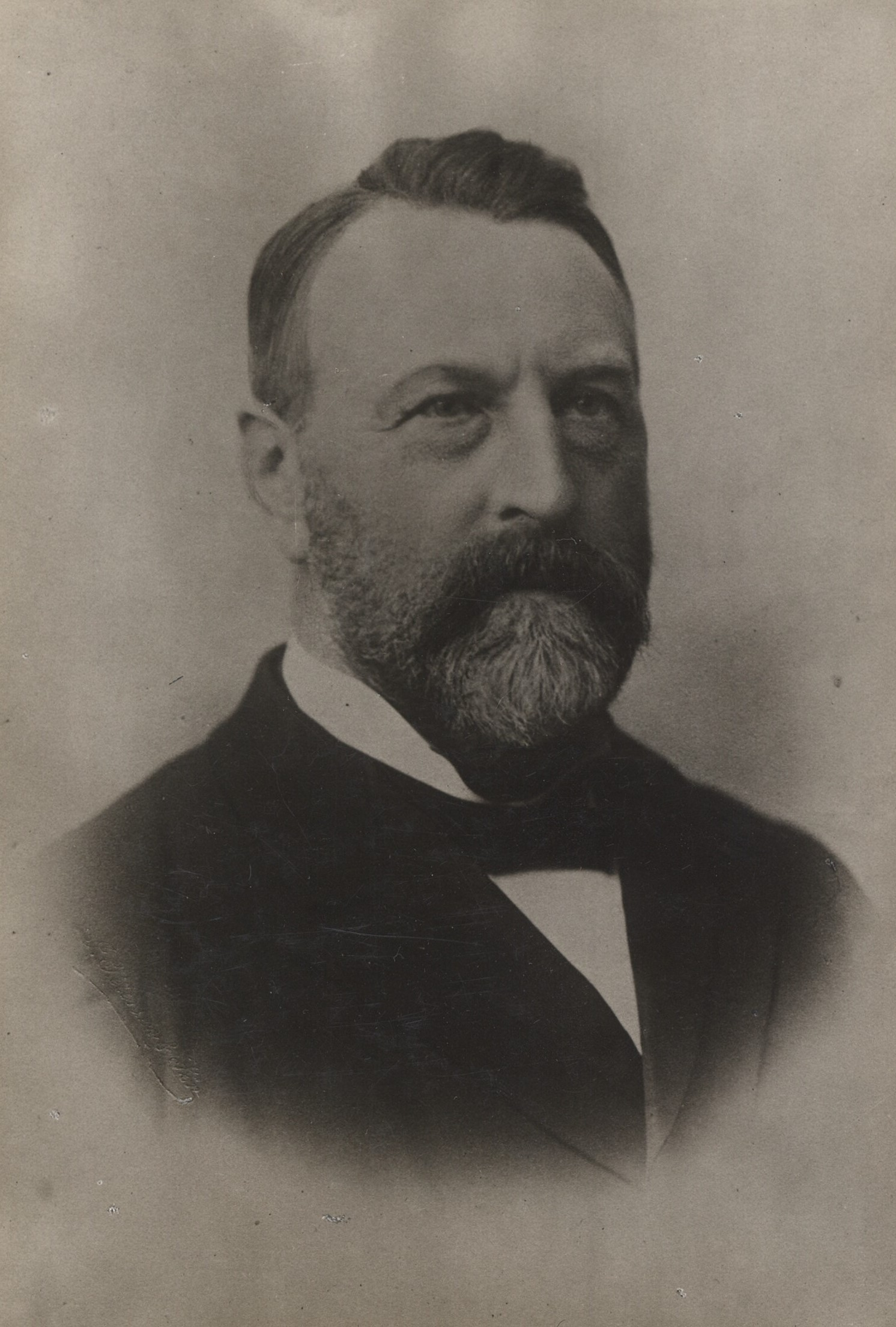 Danish professor of law, Minister of Justice and Kultus Minister, MP August Herman Ferdinand Carl Goos (1835-1917)